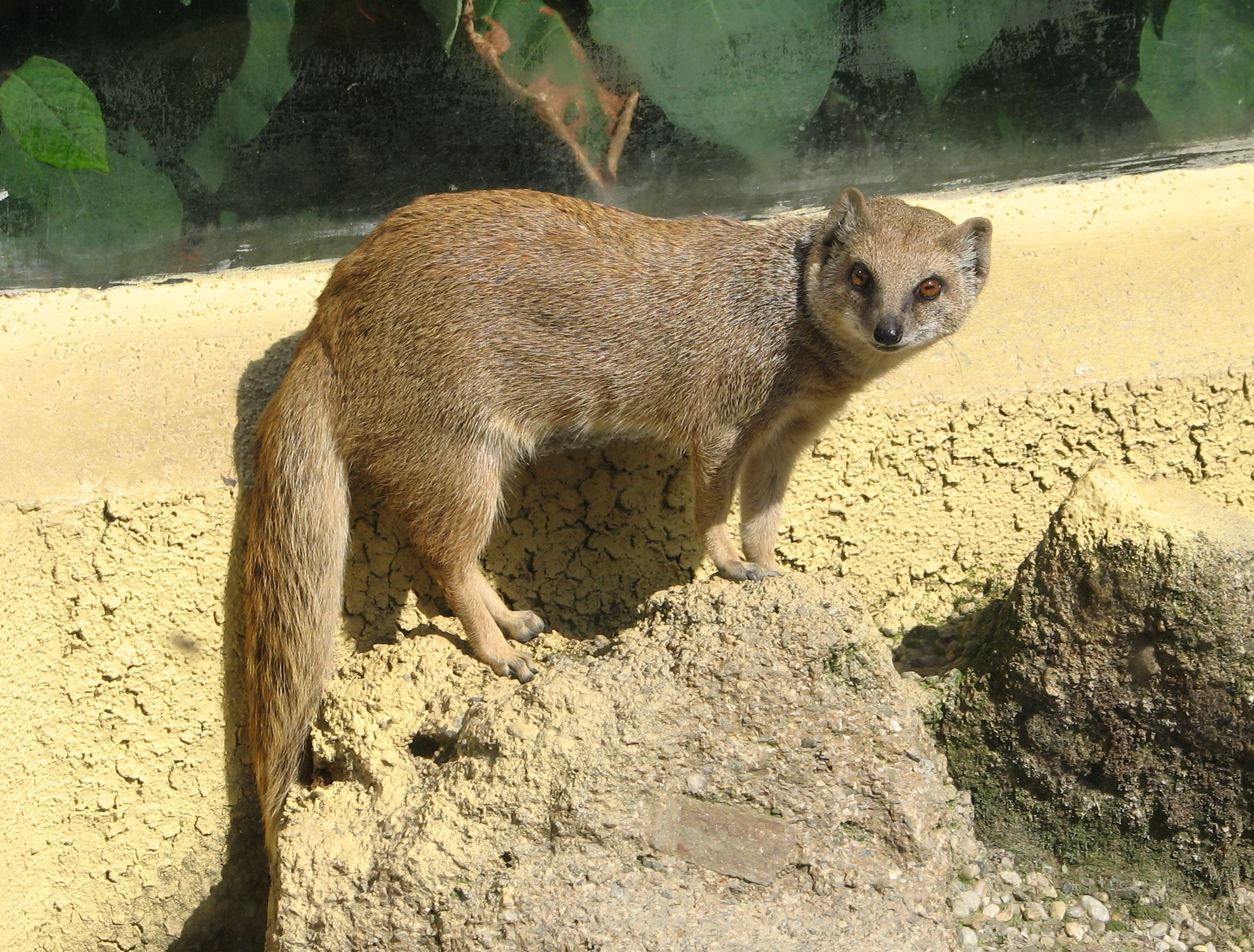 Yellow Mangoose (Cynictis penicillata) in ZOO Olomouc, Czech Republic